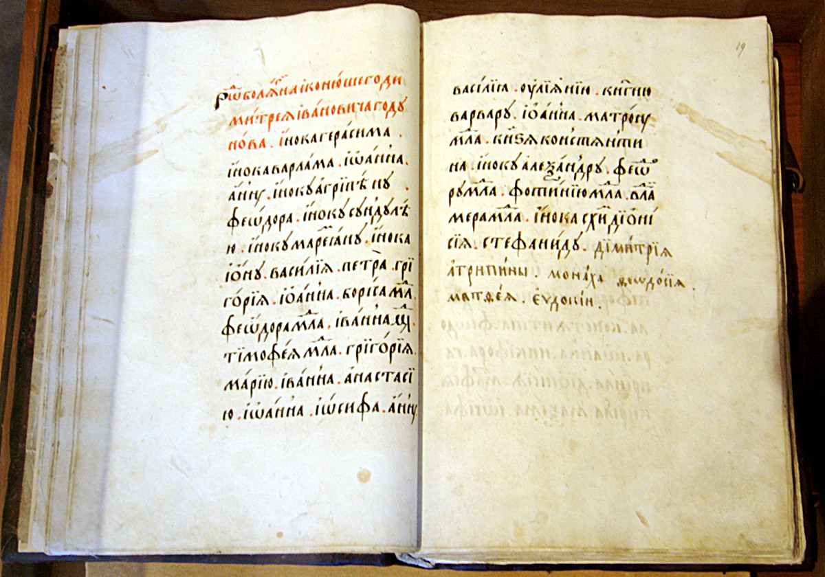 Synodikon of the Ipatiev Monastery (Kostroma, Russia).